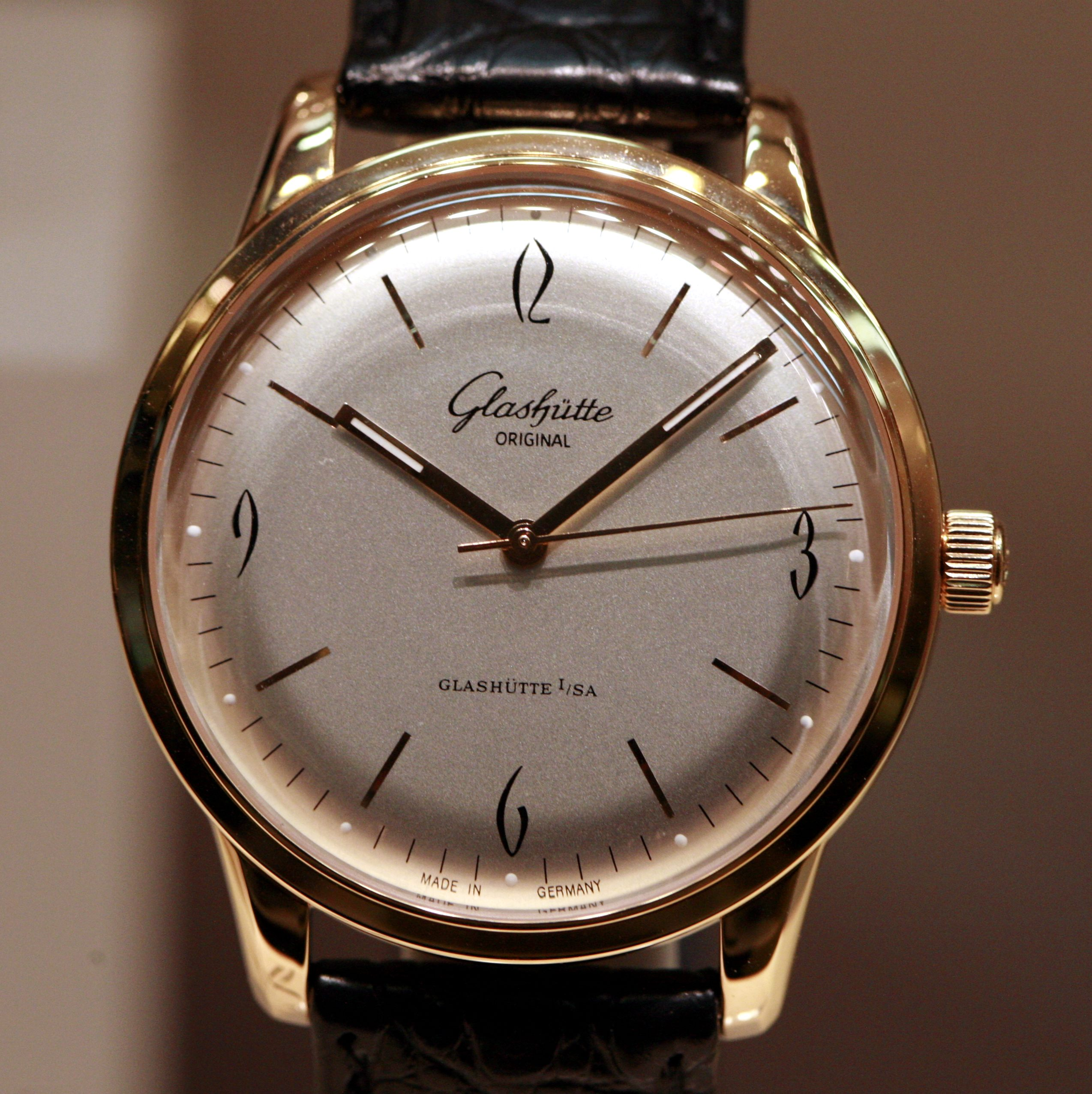 A Glasshütte Original, model Senator Sixties.